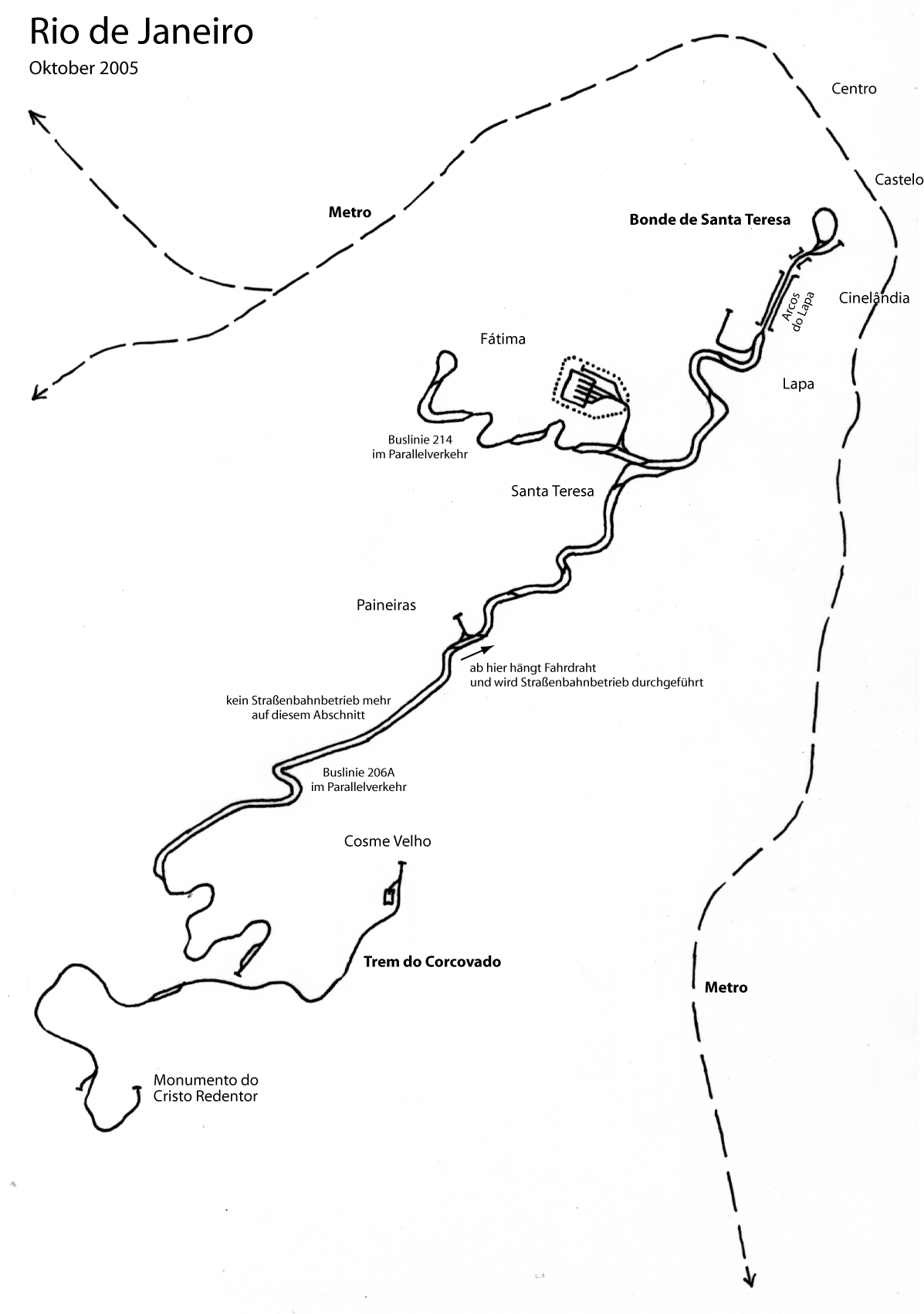 Track map of the Santa Teresa Tramway (Bonde de Santa Teresa) and the Trem do Corcovado of Rio de Janeiro in 2005